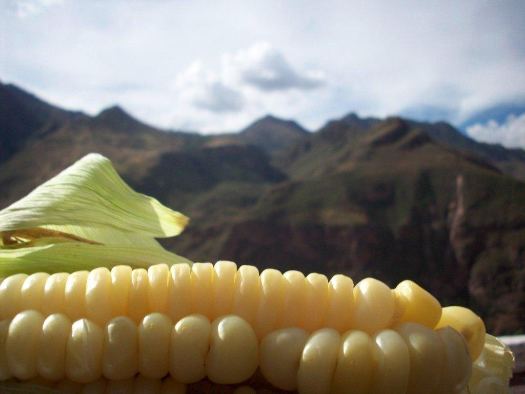 Choclo peruano